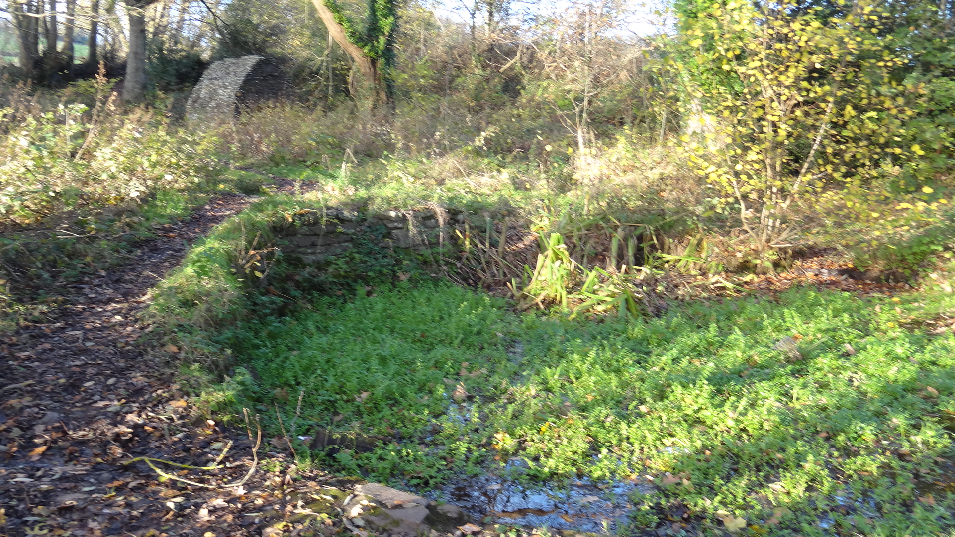 Eluned's well and the bathing pool, Brecon, Wales